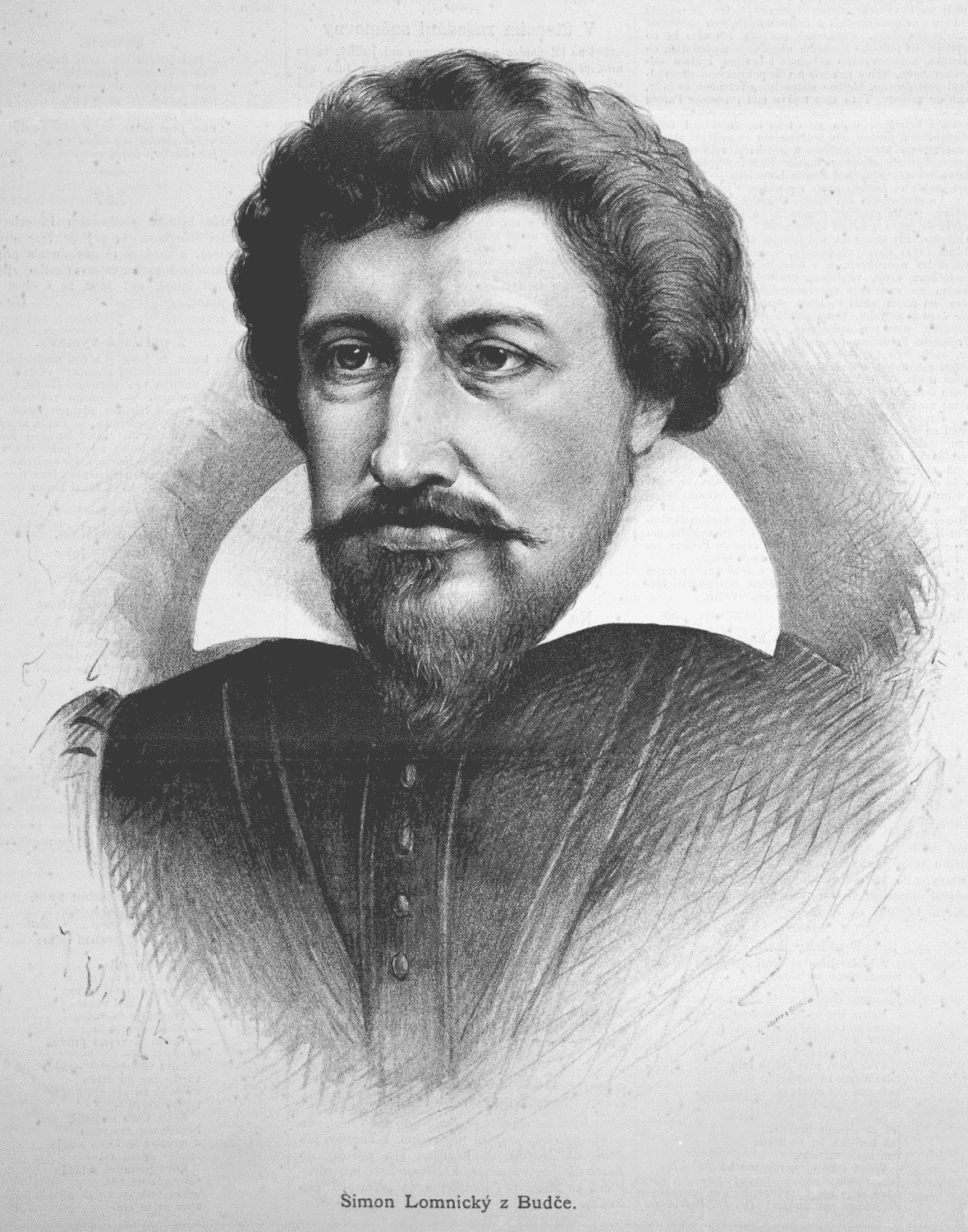 Portrait of Šimon Lomnický, 17th century Czech writer.